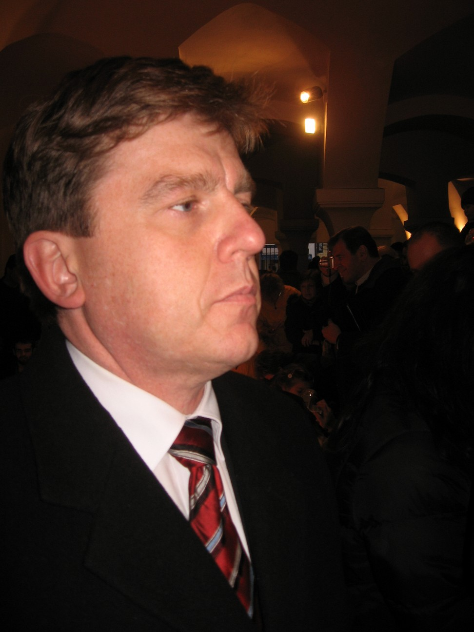 Miloslav Vlček, since August 2006 chairman of Chamber of Deputy in the Czech parliament. Picture taken on 17 November 2006 in Prague.